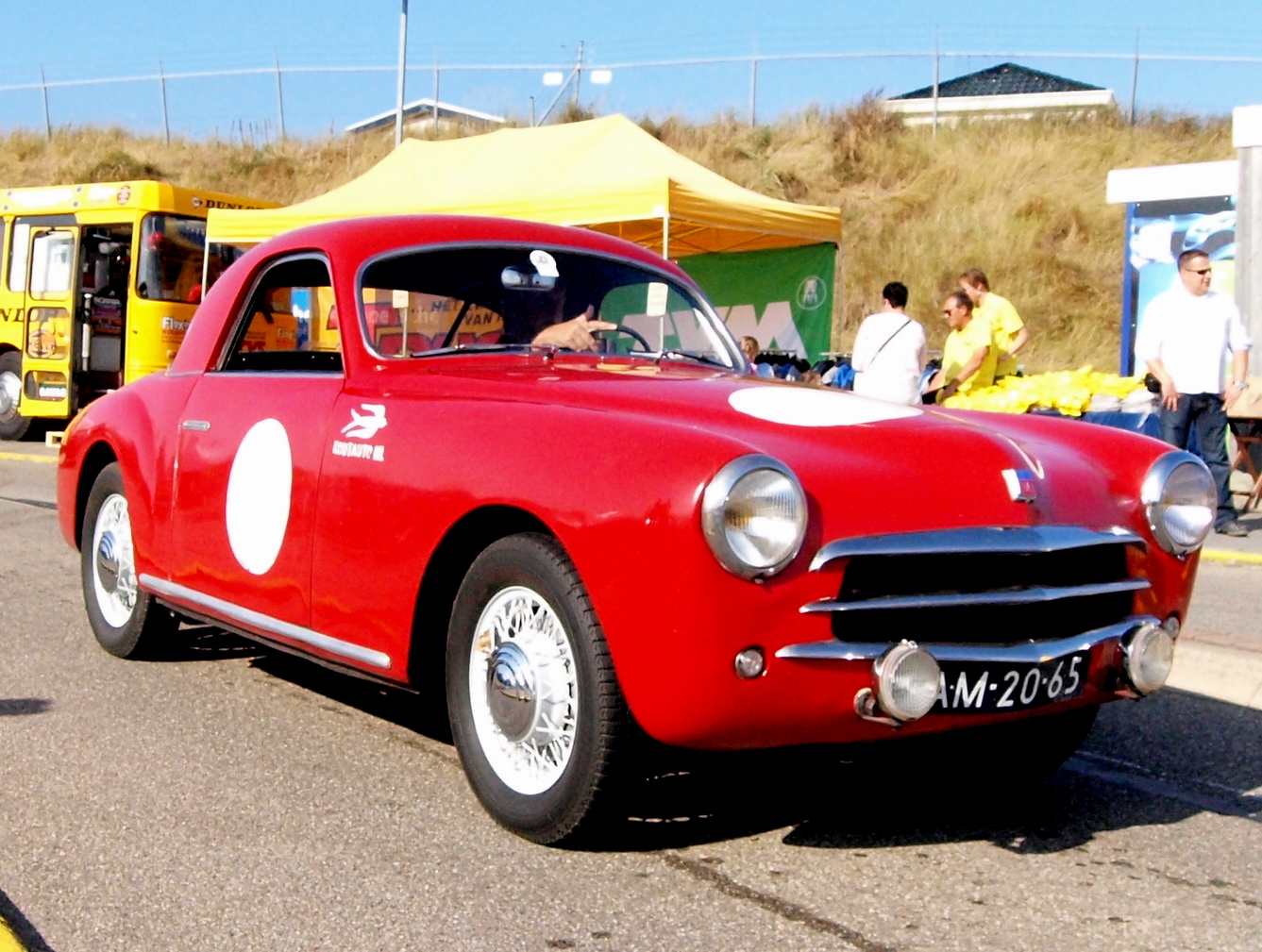 1952 Simca 9 Sport at the Nationaal Oldtimer Festival Zandvoort 2009, The Netherlands. Only about 200 of this interim model were built, with a Pinin Farina design which was later altered by Facel Metalon, who also executed the bodywork.